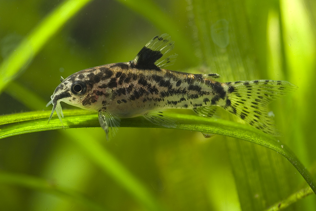 Aquarium photo of adult female _Aspidoras pauciradiatus_ (Siluriformes: Callichthyidae).